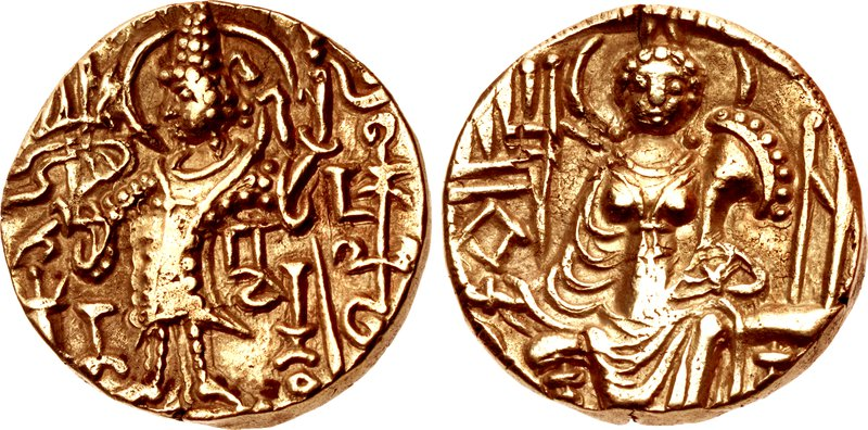 Kushan Empire. Kipunadha. Circa AD 335-350. AV Dinar (19mm, 7.74 g, 12h). Uncertain mint. Kipunada standing left, sacrificing over altar and holding filleted staff; filleted trident to left; da in Brahmi to right of altar; monogram of bacharnatha in Brahmi below Shaka’s left arm; monogram of kipunada in Brahmi to outer right / Ardoxsho enthroned facing, holding filleted investiture garland and cornucopia; tamgha to upper left.